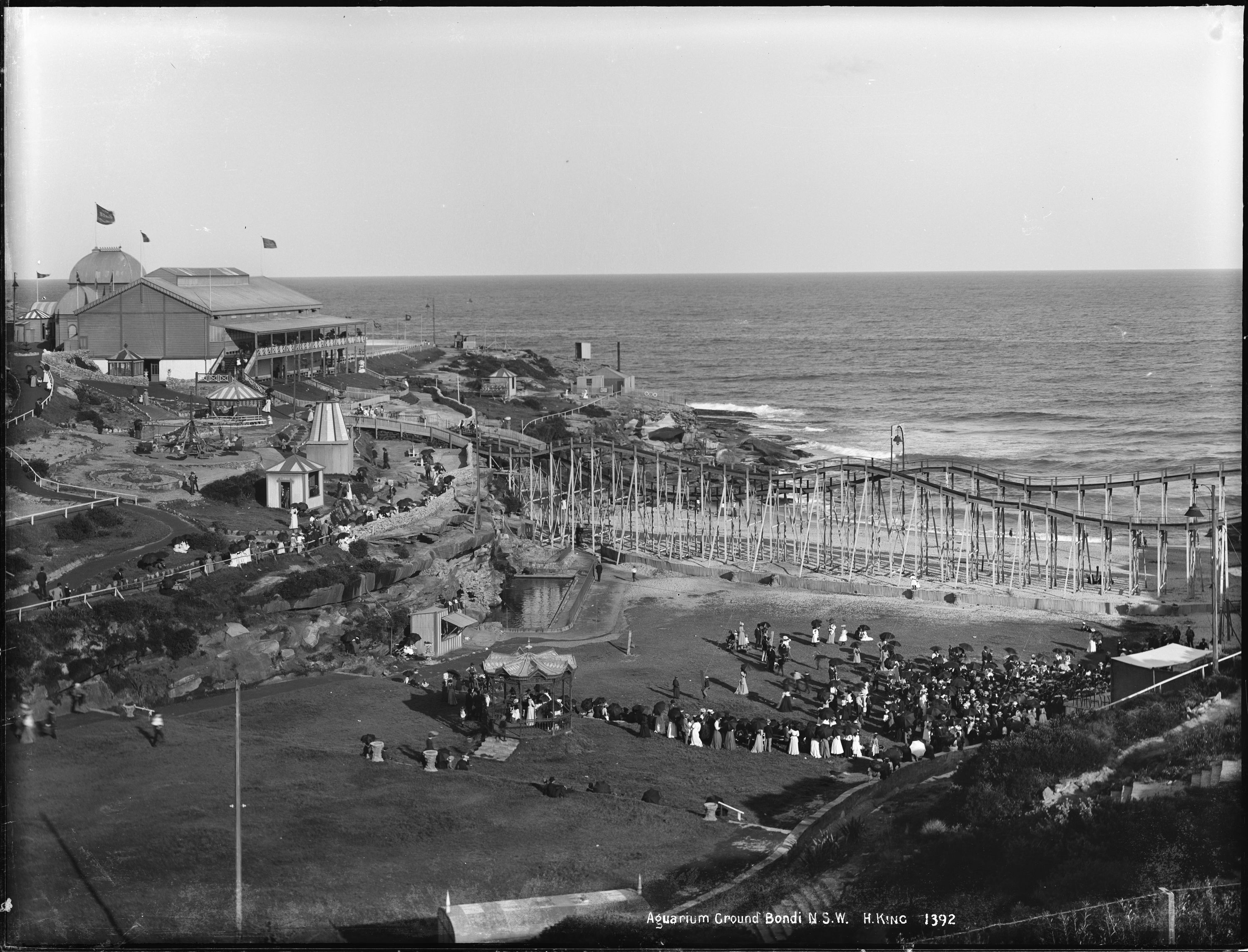 85/1285-1139 - Glass negative, full plate, 'Aquarium Ground, Bondi, N.S.W.', Henry King, Sydney, Australia, c. 1880-1900